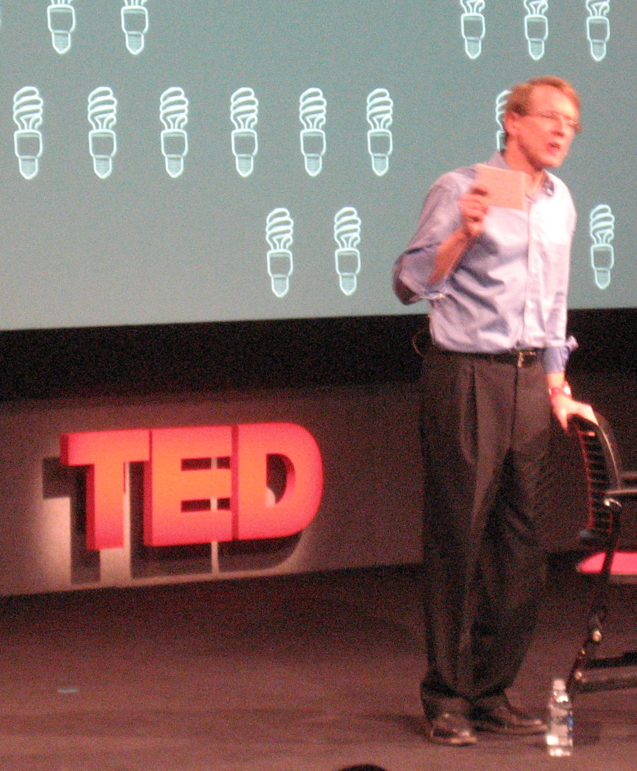 John Doerr speaking at TED in 2007.